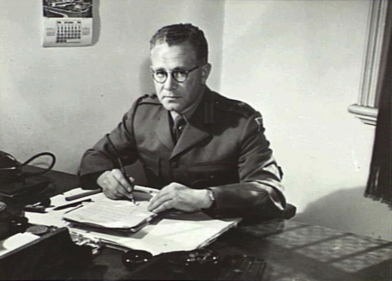 Australian Army Colonel Robert. B. Madgwick, Director of Army Education, at work in the Directorate of Education, Australian Army Education Service, Toorak, Melbourne, Victoria, Australia.